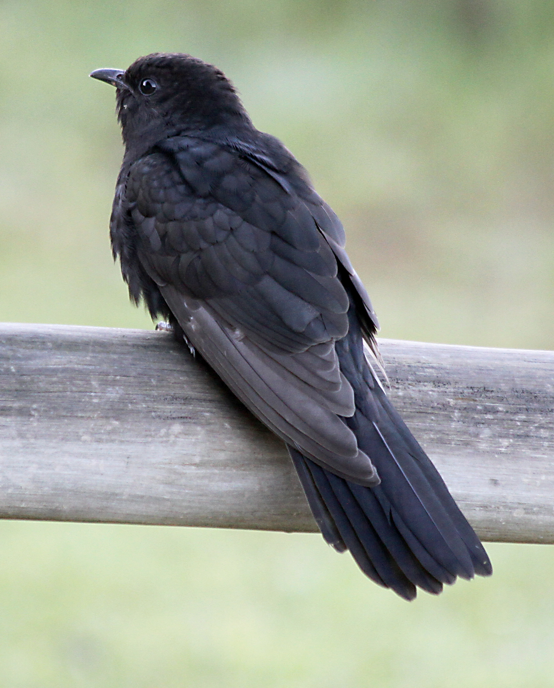 Black cuckoo, apparently photographed in the Drakensberg region of KwaZulu-Natal, South Africa